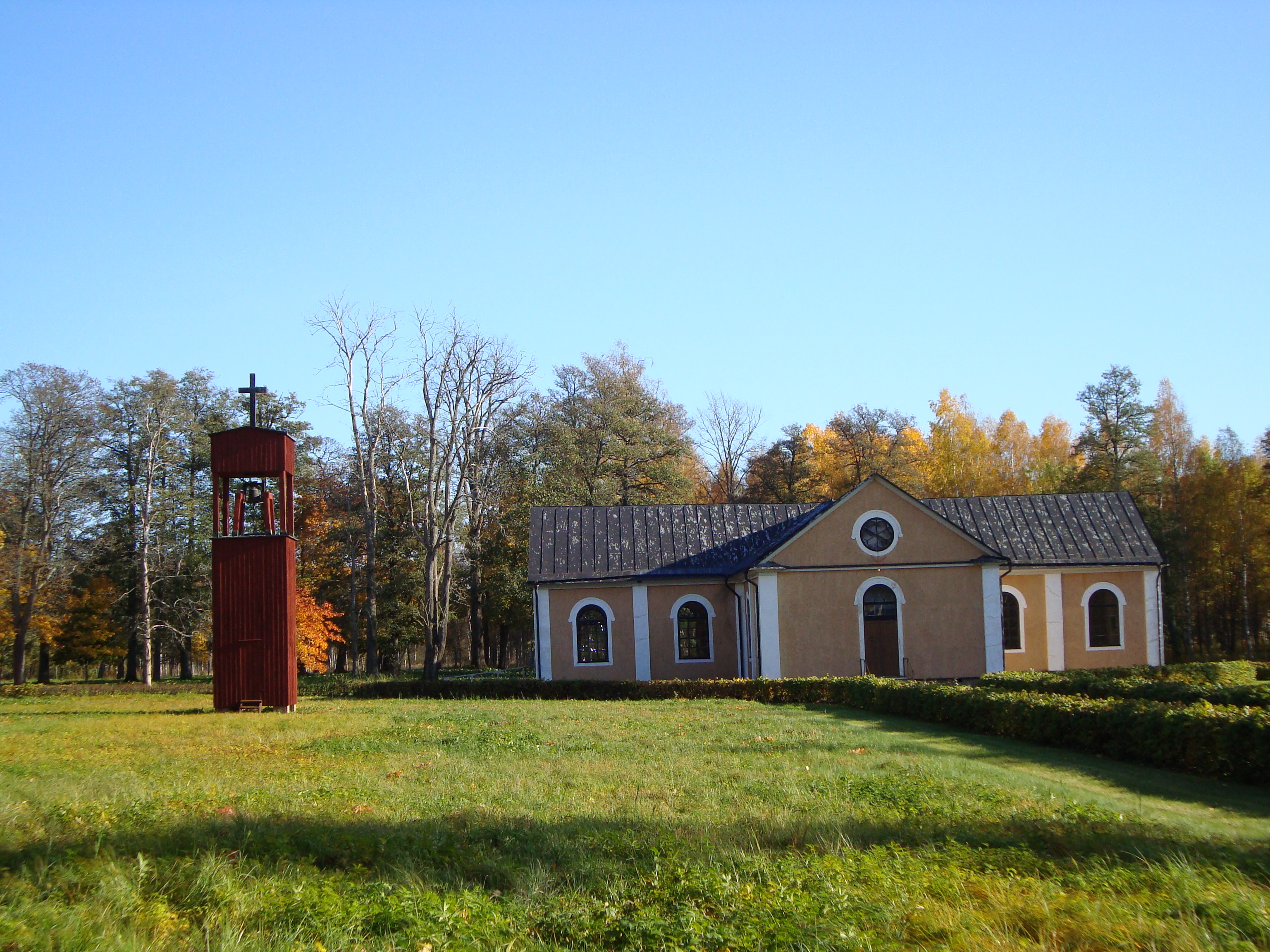 Church and belltower of Sätrabrunn, Sweden